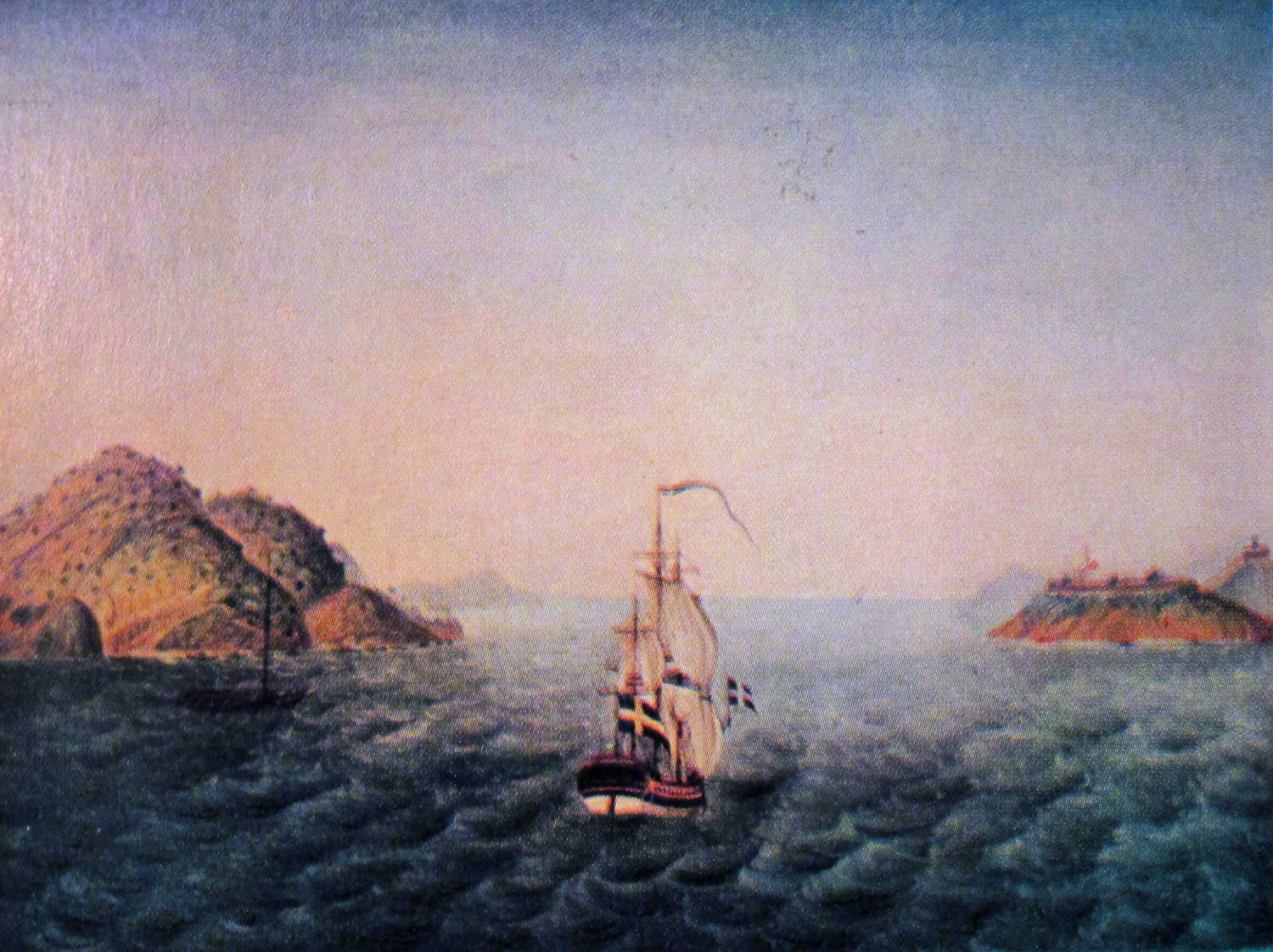 Hu-Môn, oil painting, Bocca Tigris. This painting is from the 1700s is in the collections of the Gothenburg Museum.